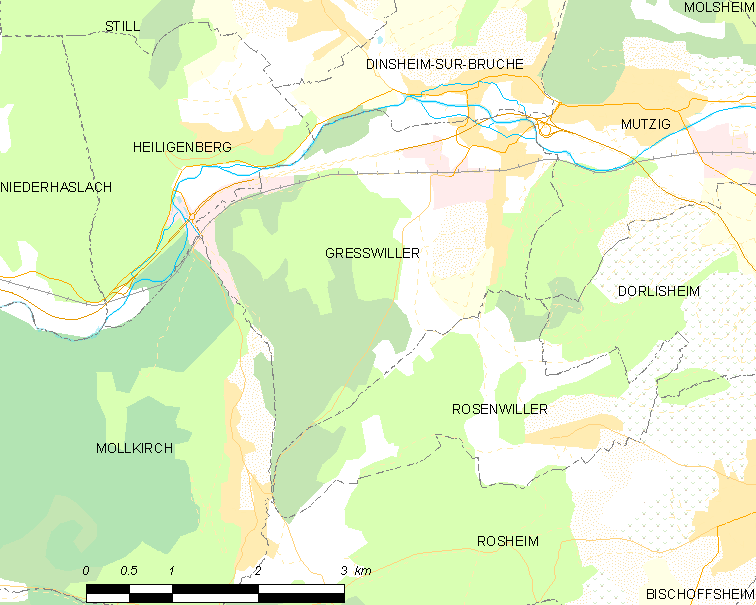 Map of French municipality